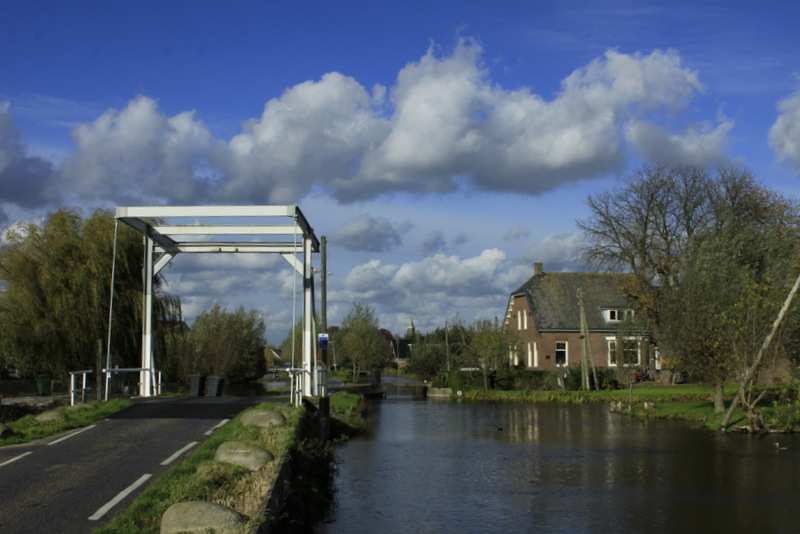 Reeuwijk-Dorp, South Holland, The Netherlands.